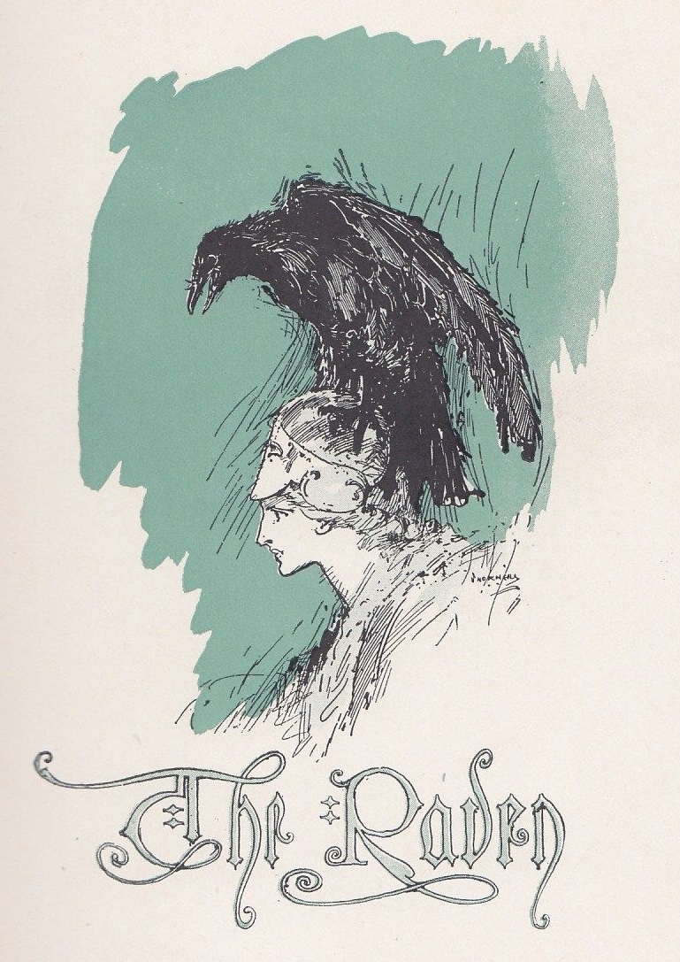 John R. Neill's illustration for Poe's The Raven in "The Raven and other Poems" (Chicago : The Reilly & Britton Co, 1910)